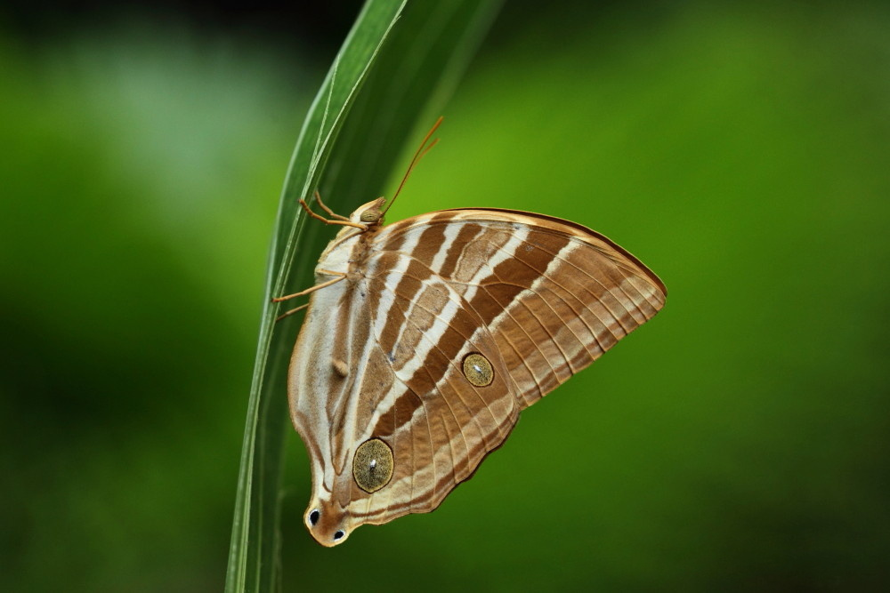 PALMKING (Amathusia phidippus) a rare Butterfly . In India this butterfly is seen only in Southern KERALA